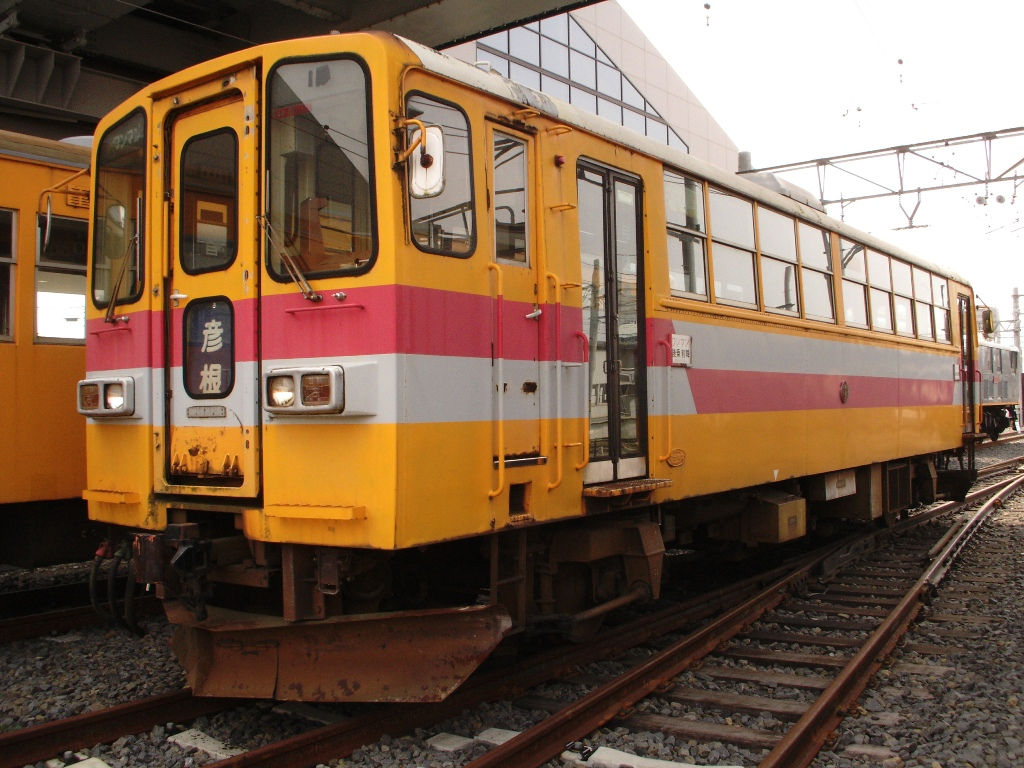 An Ohmi Railway LE10 diesel railcar